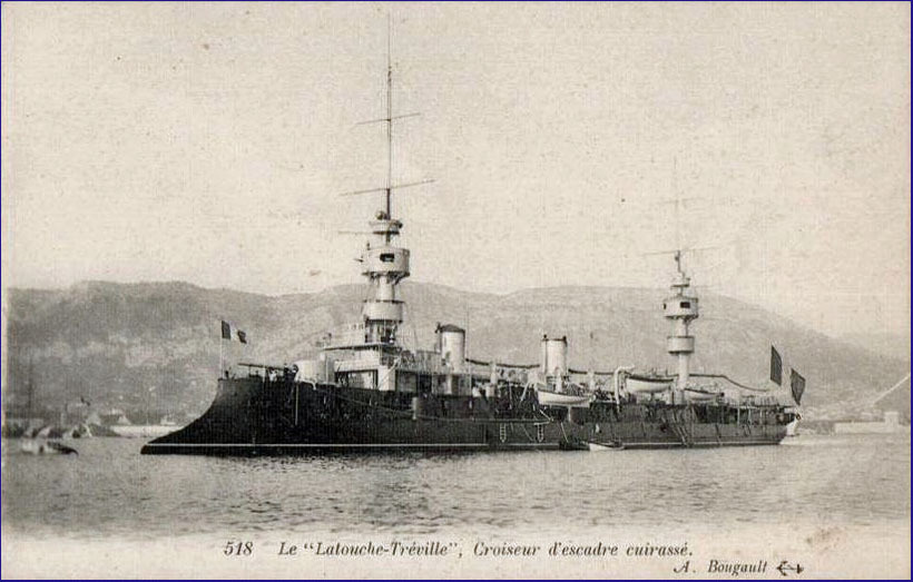 French armored cruiser Latouche-Tréville